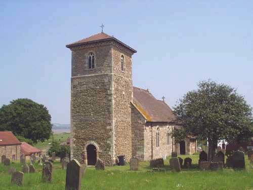 The Church of St John the Baptist, Whitton, Lincolnshire